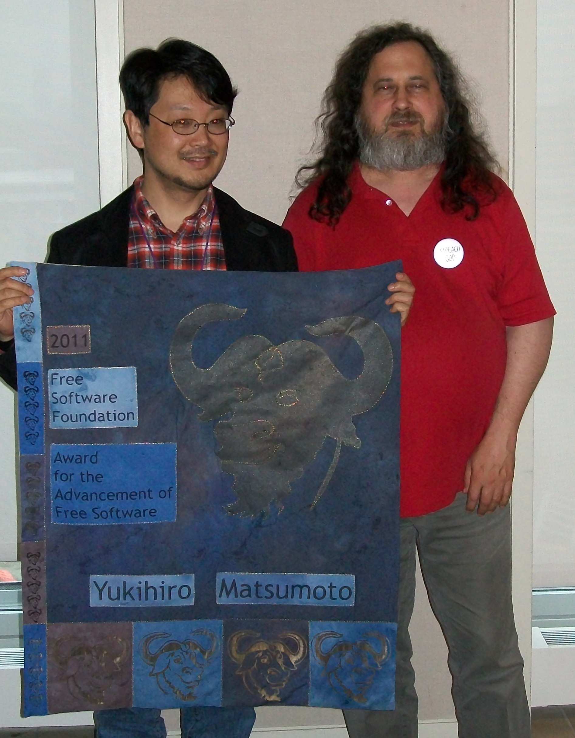 Matz, winner of the free software award for the Advancement of Free Software. Award given to Yukihiro Matsumoto by Richard Stallman.